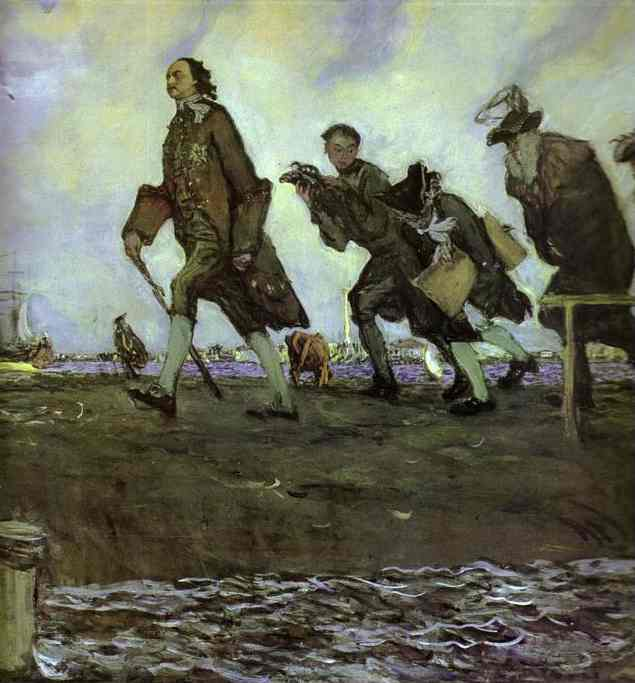 Peter the Great. Detail. 1907. Tempera on cardboard. The Tretyakov Gallery, Moscow, Russia.